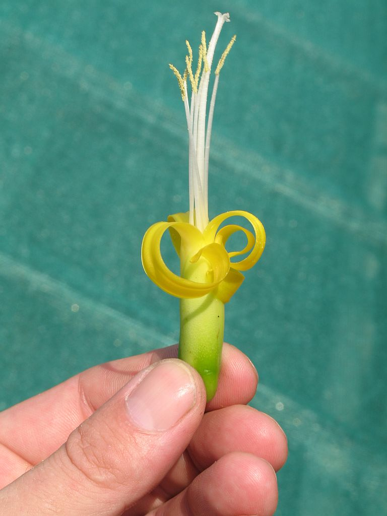 Alcantarea regina, in cultivation at the Botanical Garden of Heidelberg, Germany.